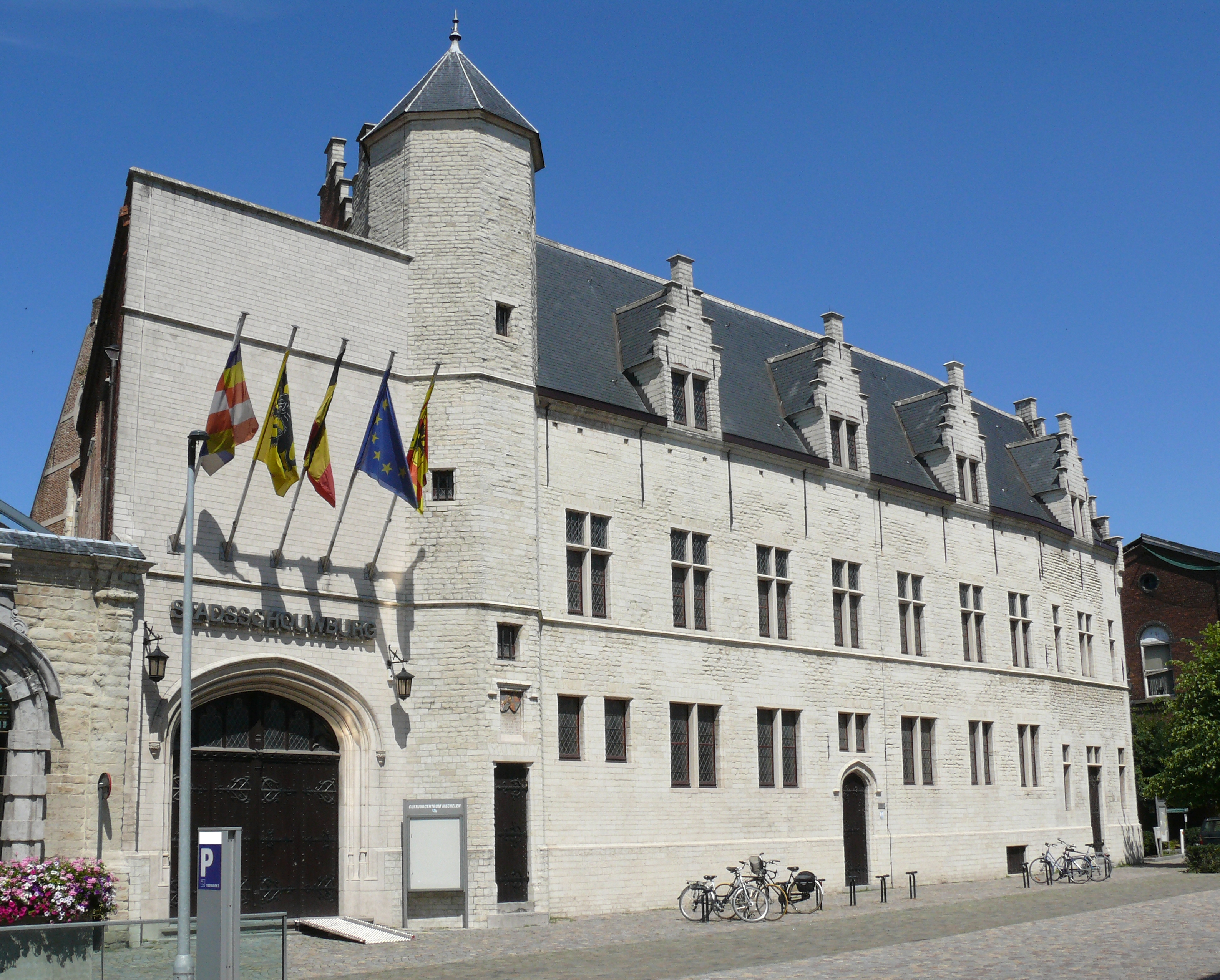 The Hof of Kamerijk (Court of Cambrai), also know as the Palace of Margaret of York. It now houses the city theatre.